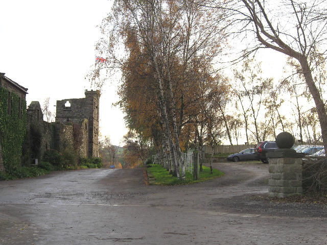 Ruins, or perhaps a folly, at Akebar